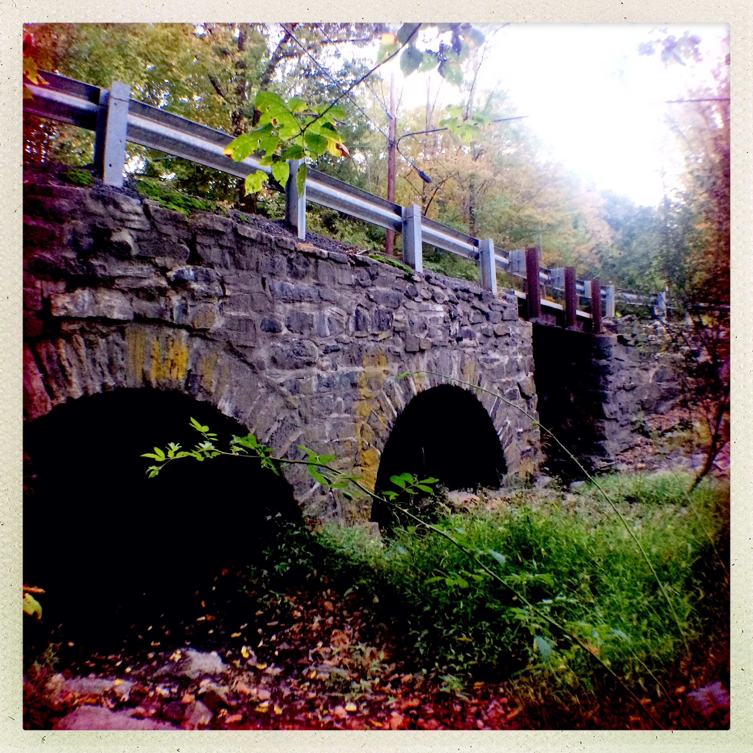 Rock Brook Bridge, Junction of Long Hill and Dutchtown-Zion Rds. over Cat Tail Brook, Montgomery and Hillsborough Townships Zion